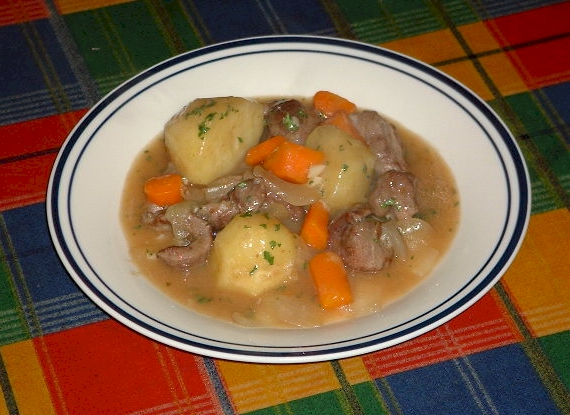 A Plate of Irish Stew